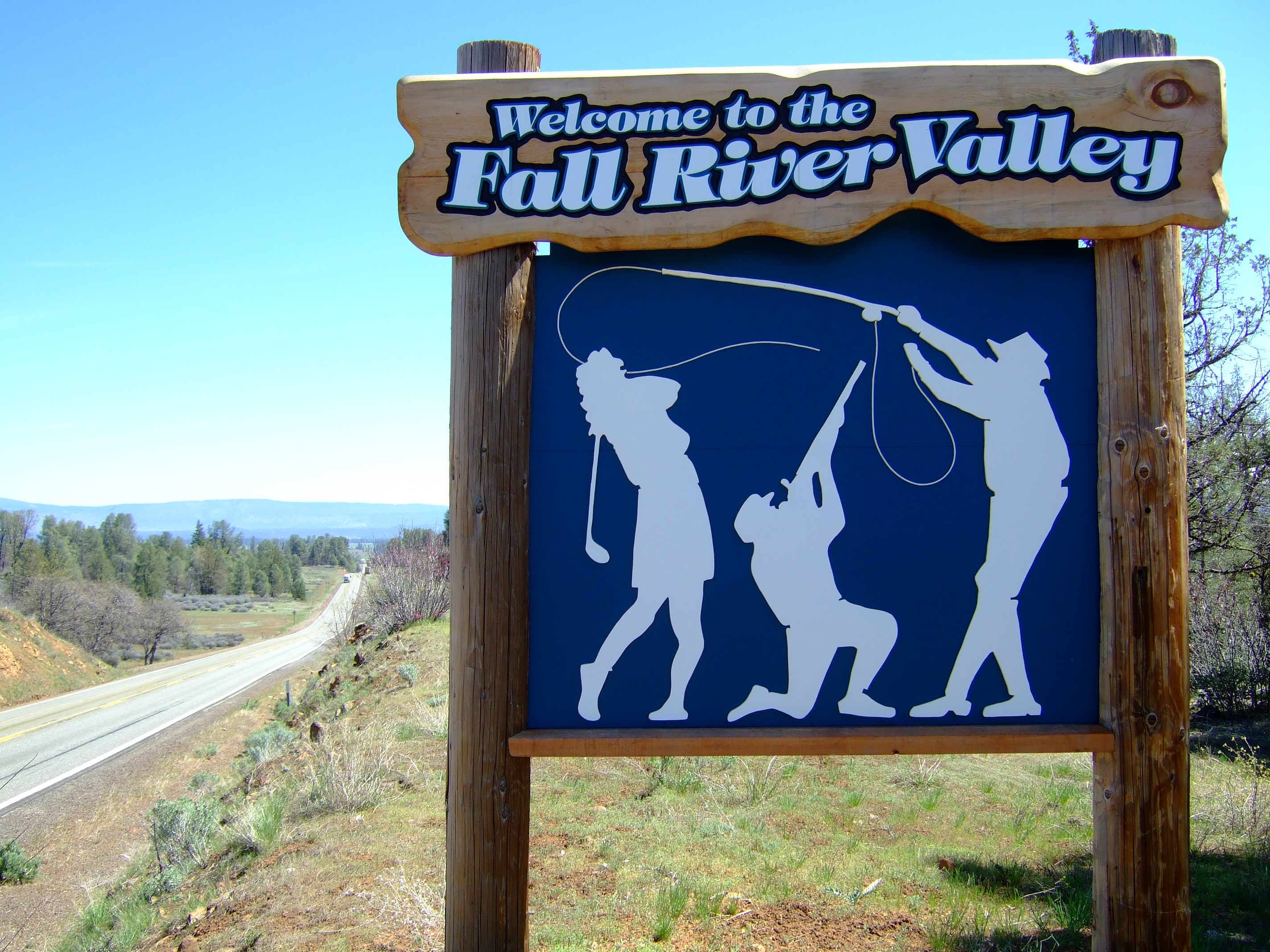 "Welcome to Fall River Mills Valley" sign — Fall River Mills, Shasta County, California.